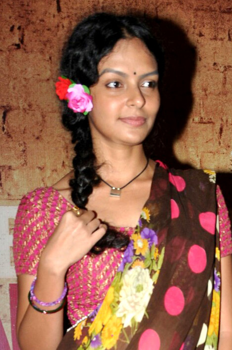 Bidita Bag at first look launch of Babumoshai Bandookbaaz on July 11, 2017.